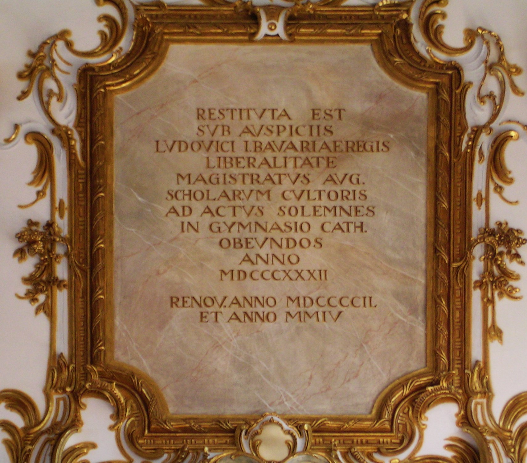 Inscription from the Kleiner Goldener Saal at Augsburg